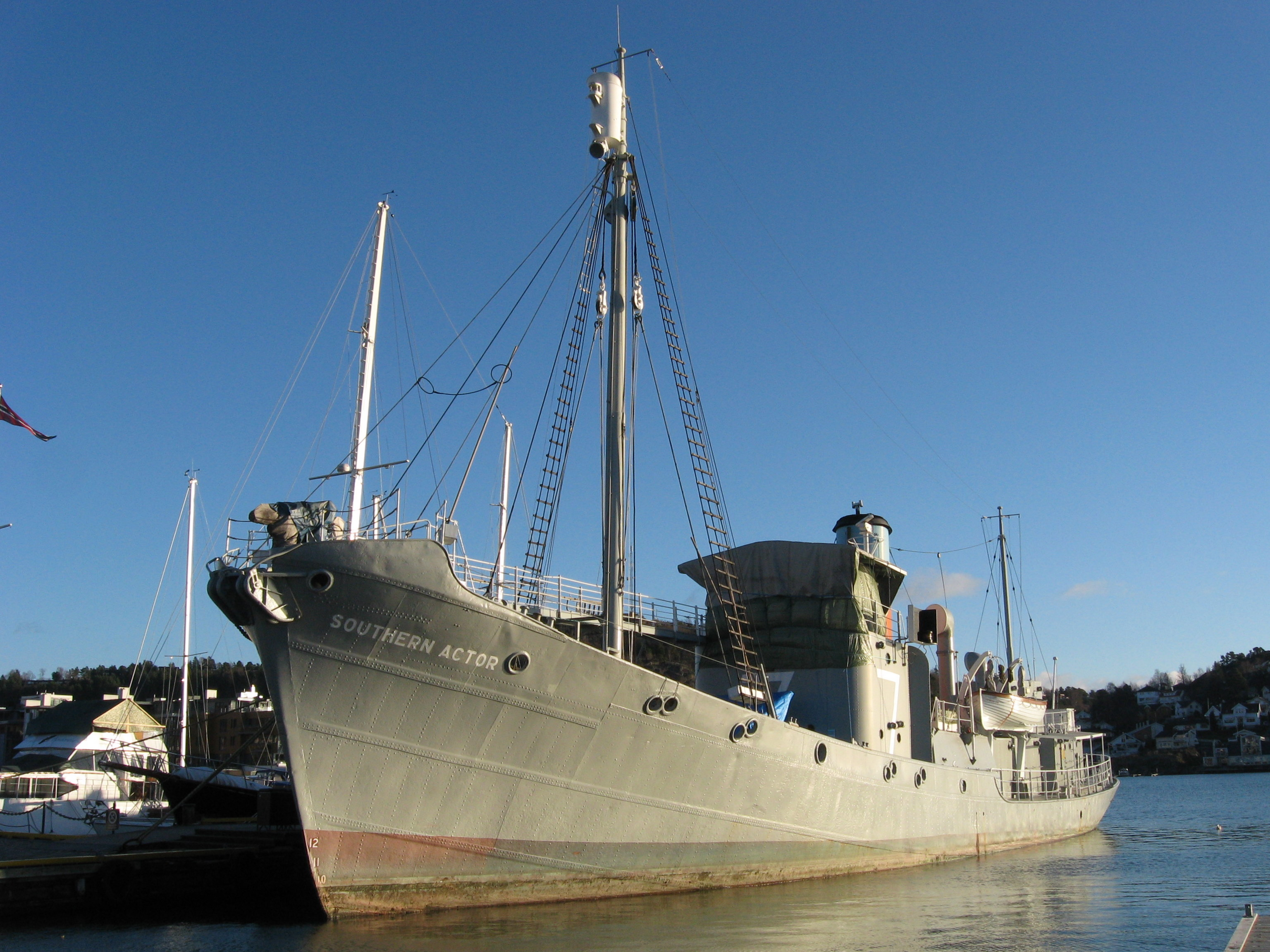 SS Southern Actor at Sandefjord harbor, Norway.